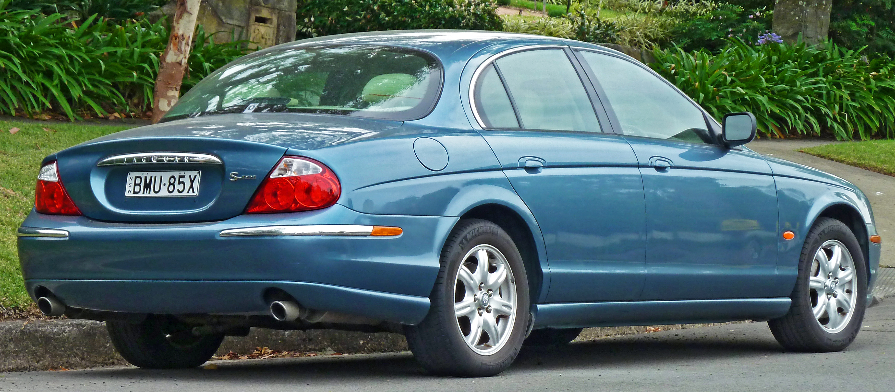 2001 Jaguar S-Type (X200) 3.0 sedan. Photographed in Roseville, New South Wales, Australia.